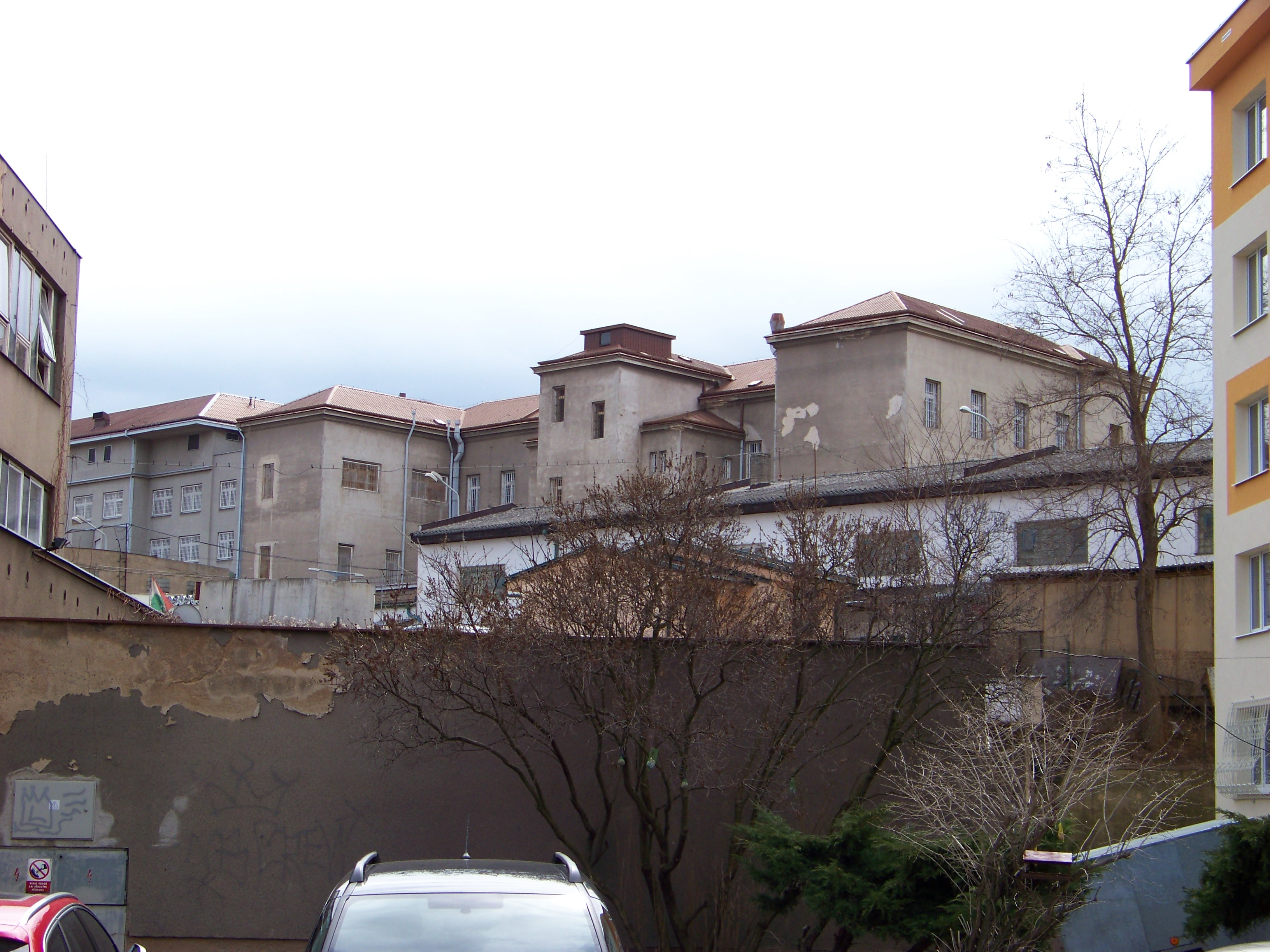 Prague-Nusle, the Czech Republic. Pankrác Prison, seen from Na květnici street.